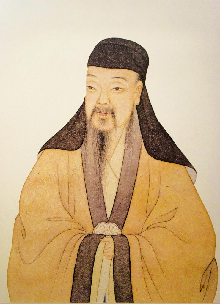 Portrait of Tang Xianzu, the playwright